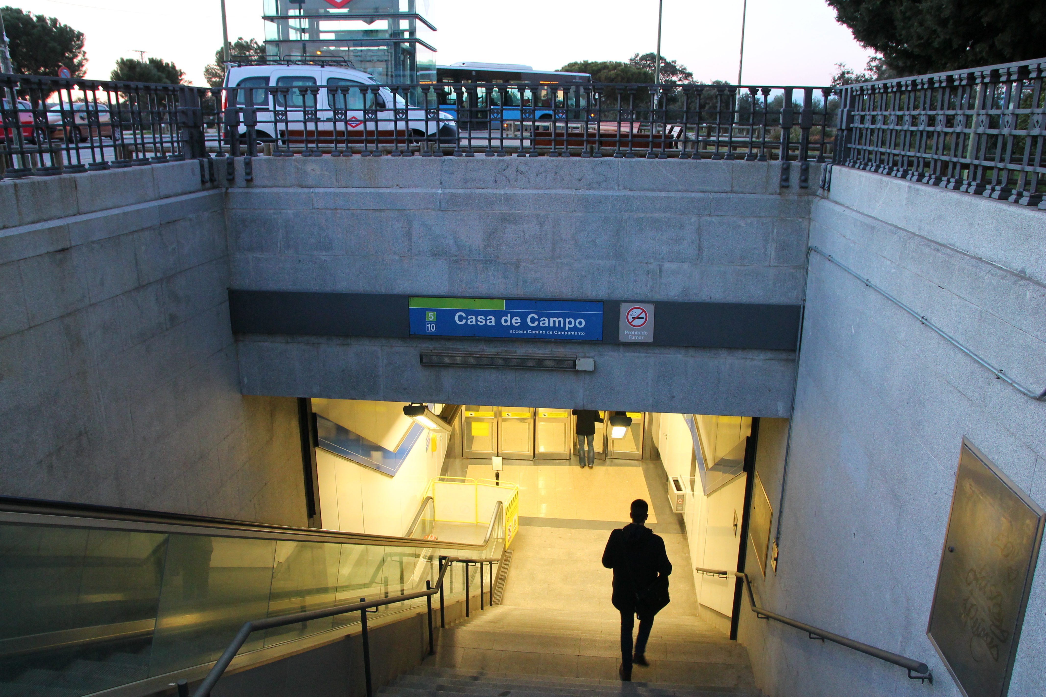 Casa de Campo metro station, Madrid